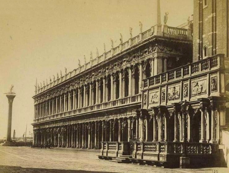 Carlo Naya (1822-1881) - Library of Saint Mark, Venice. Catalogue #: 130 (bis).